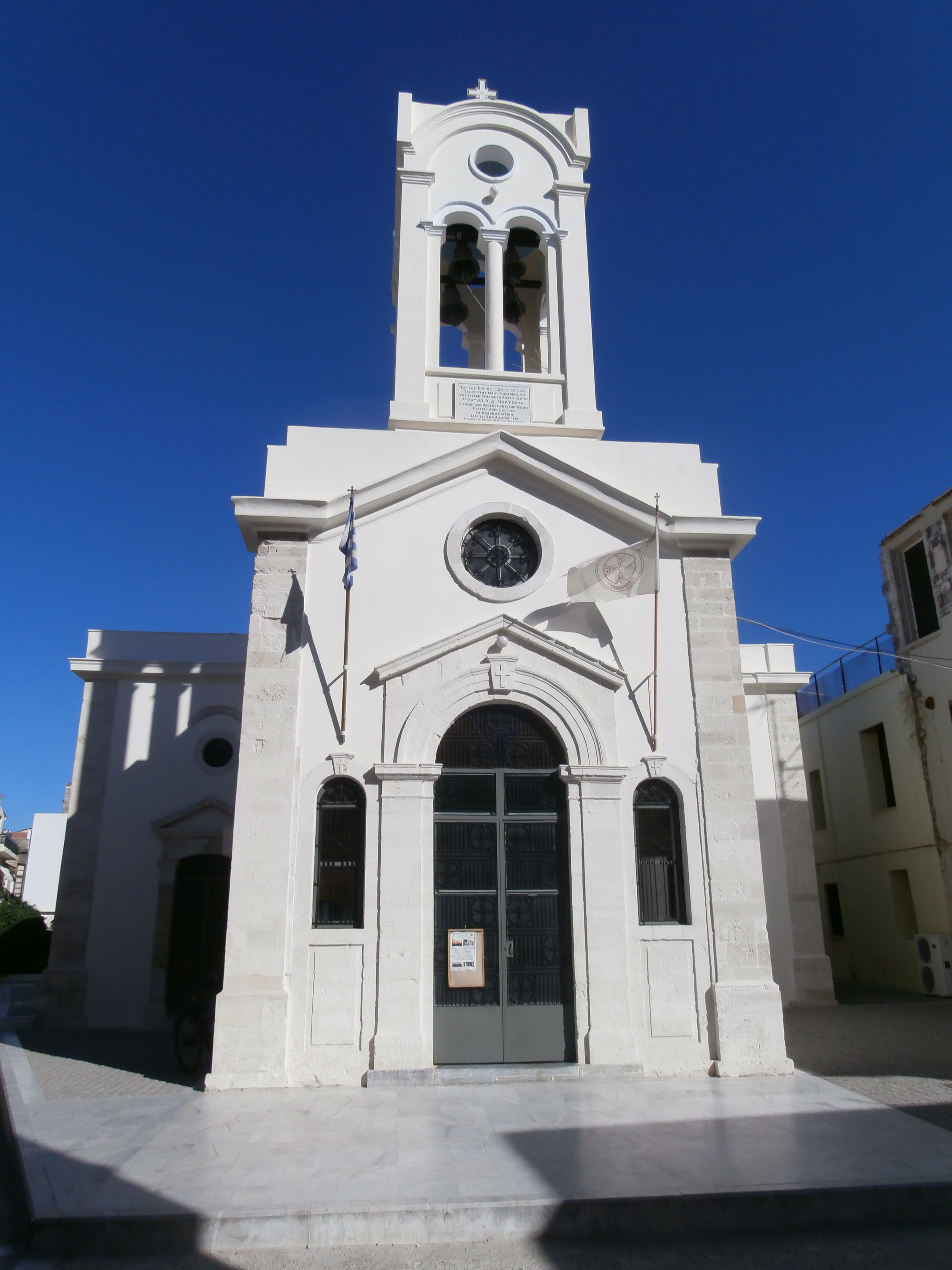 The church Lady of Angels, Rethymno.